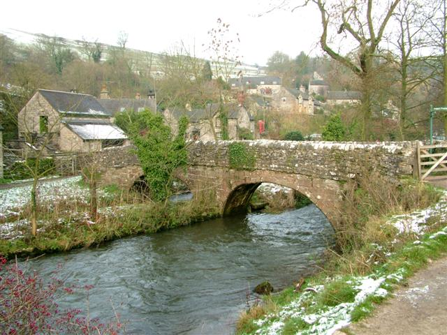 Viators Bridge, Milldale